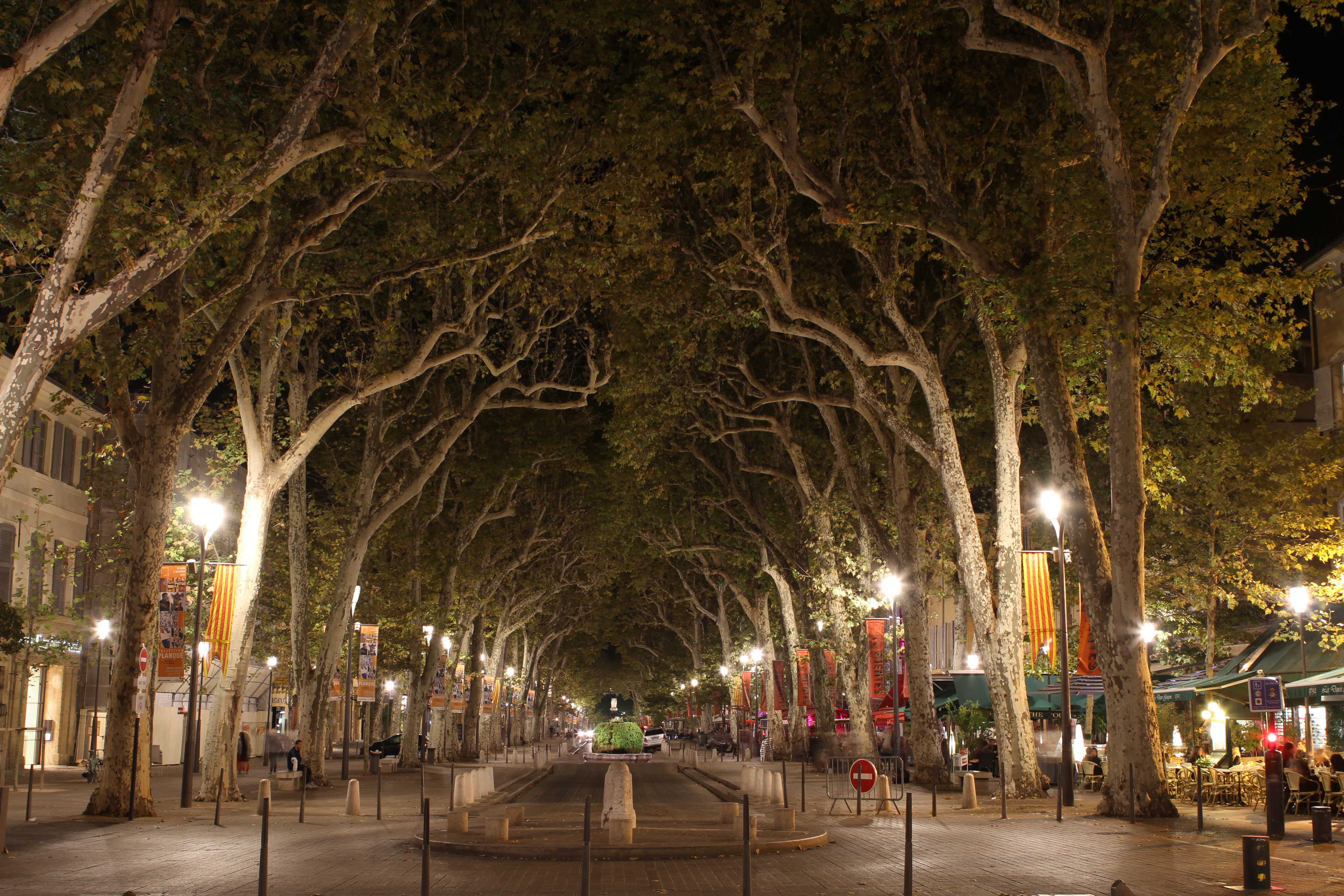 The Cours Mirabeau in Aix-en-Provence (Bouches-du-Rhône, France).